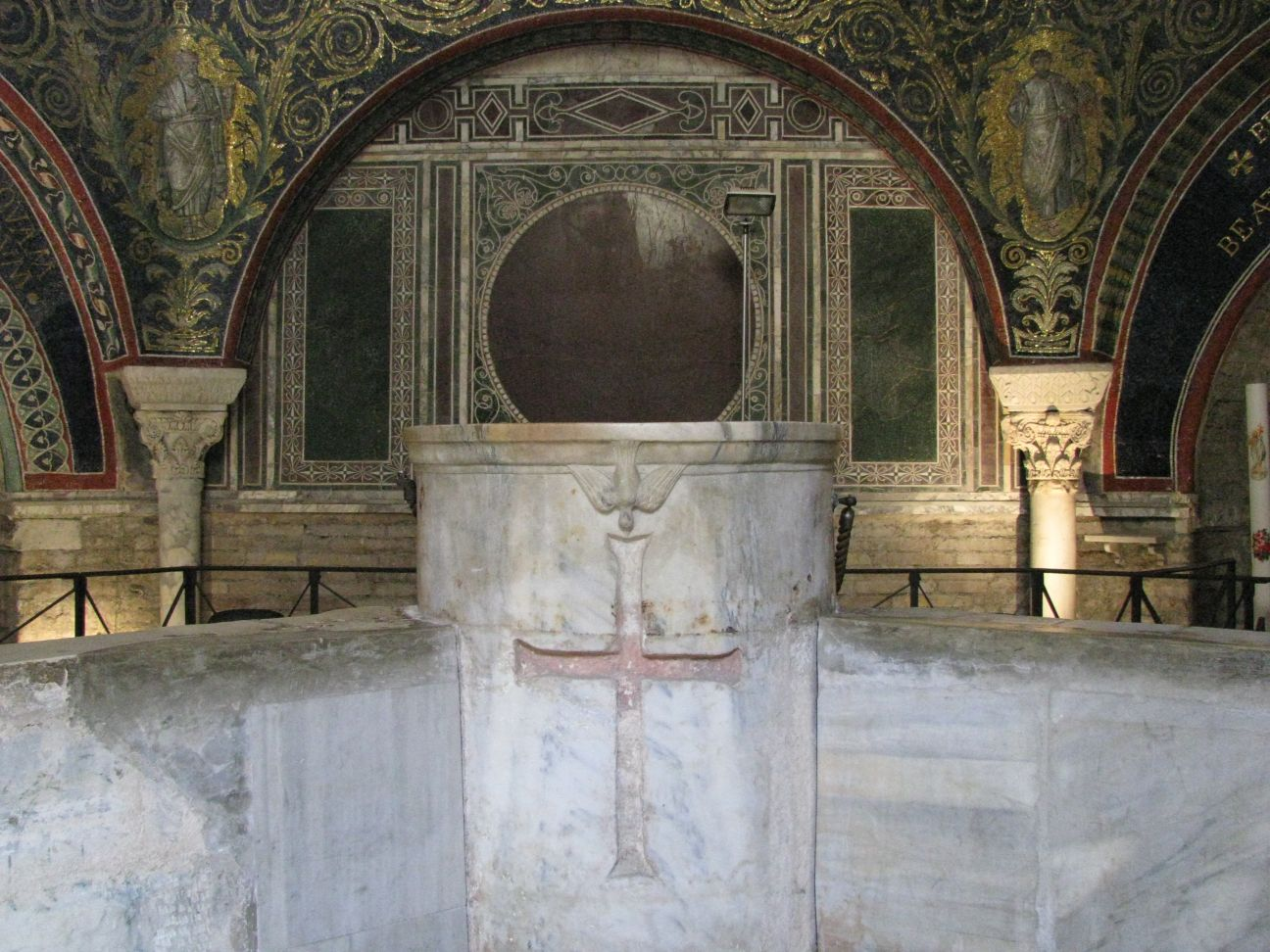 Bapistry of Neon